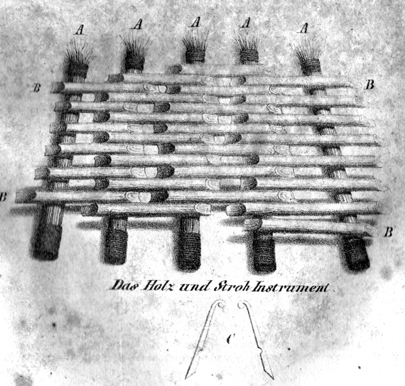 'derevo i soloma' instrument, from Lewald's Europa pub 1836. Scanned by me from copy of book in my possession